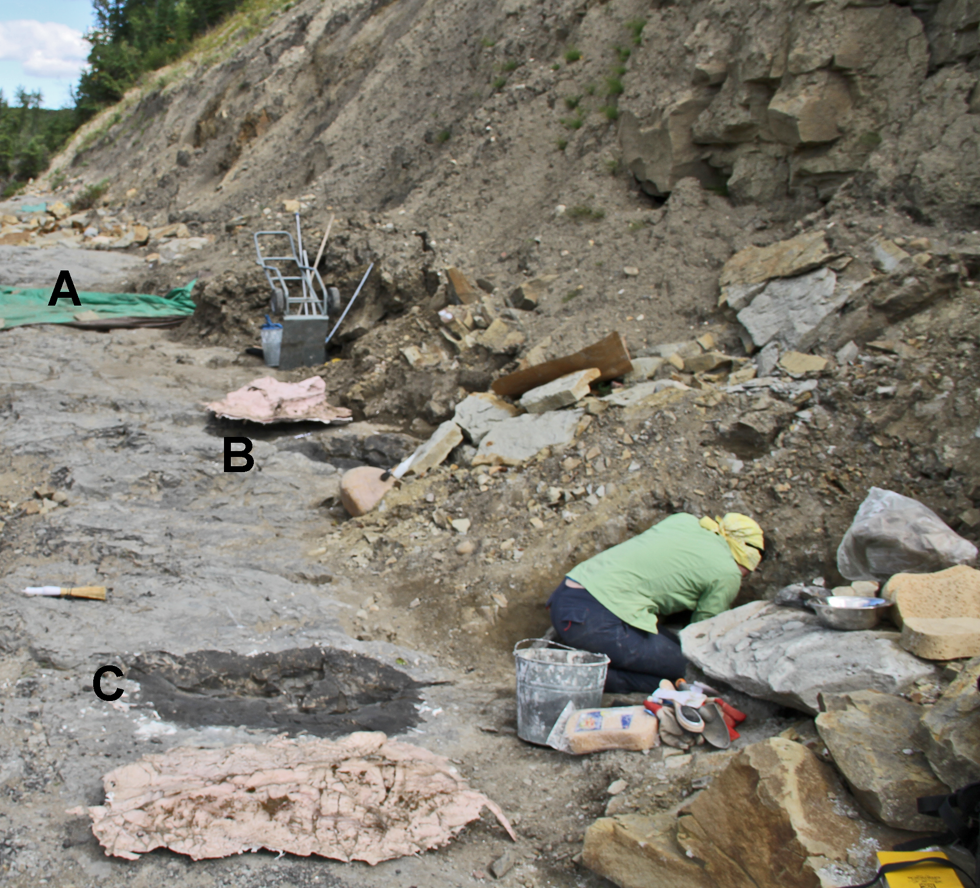 Excavation of Bellatoripes Tracksites (A: Trackway A; B: Trackway B; C: Trackway C). View toward the north from near Trackway C (foreground with LGB excavating and silicone mould of print #1 at the bottom of the figure), Trackway B is located in the center of the image and the silicone mould of Trackway B, print #1 is visible. Trackway A is covered in a green tarp near the top left of the image. The headings of the trackways are from left to right with other tracks likely buried by sediments forming a steep cliff.